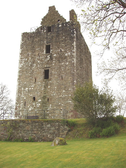 Cardoness castle, Gatehouse of Fleet